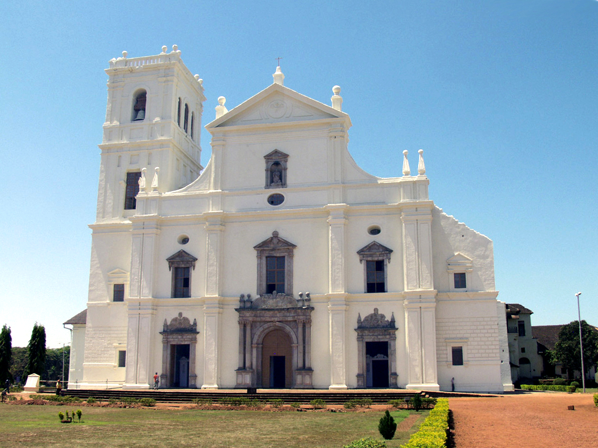 Se Cathedral, Old Goa.